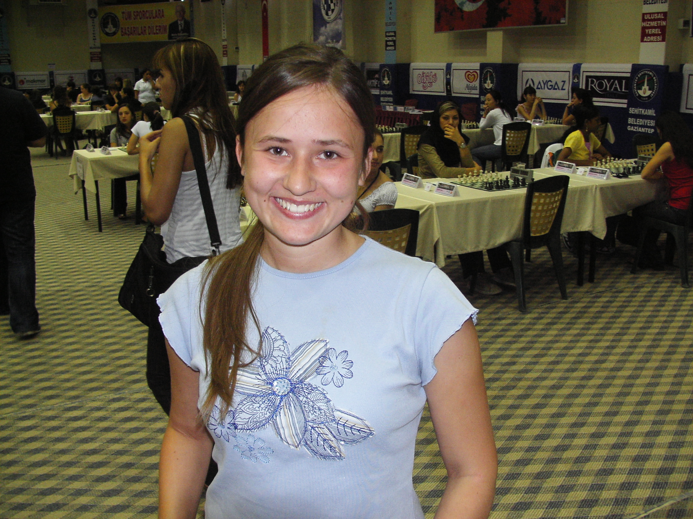 Deimante Daulyte Lithuania, at 2008 World Junior Chess Championship in Gaziantep, Turkey.